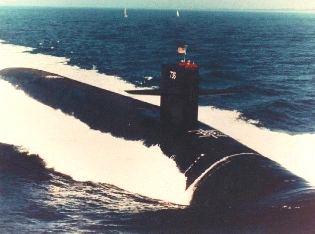 United States Navy ballistic missile submarine , probably while on sea trials off the United States East Coast.